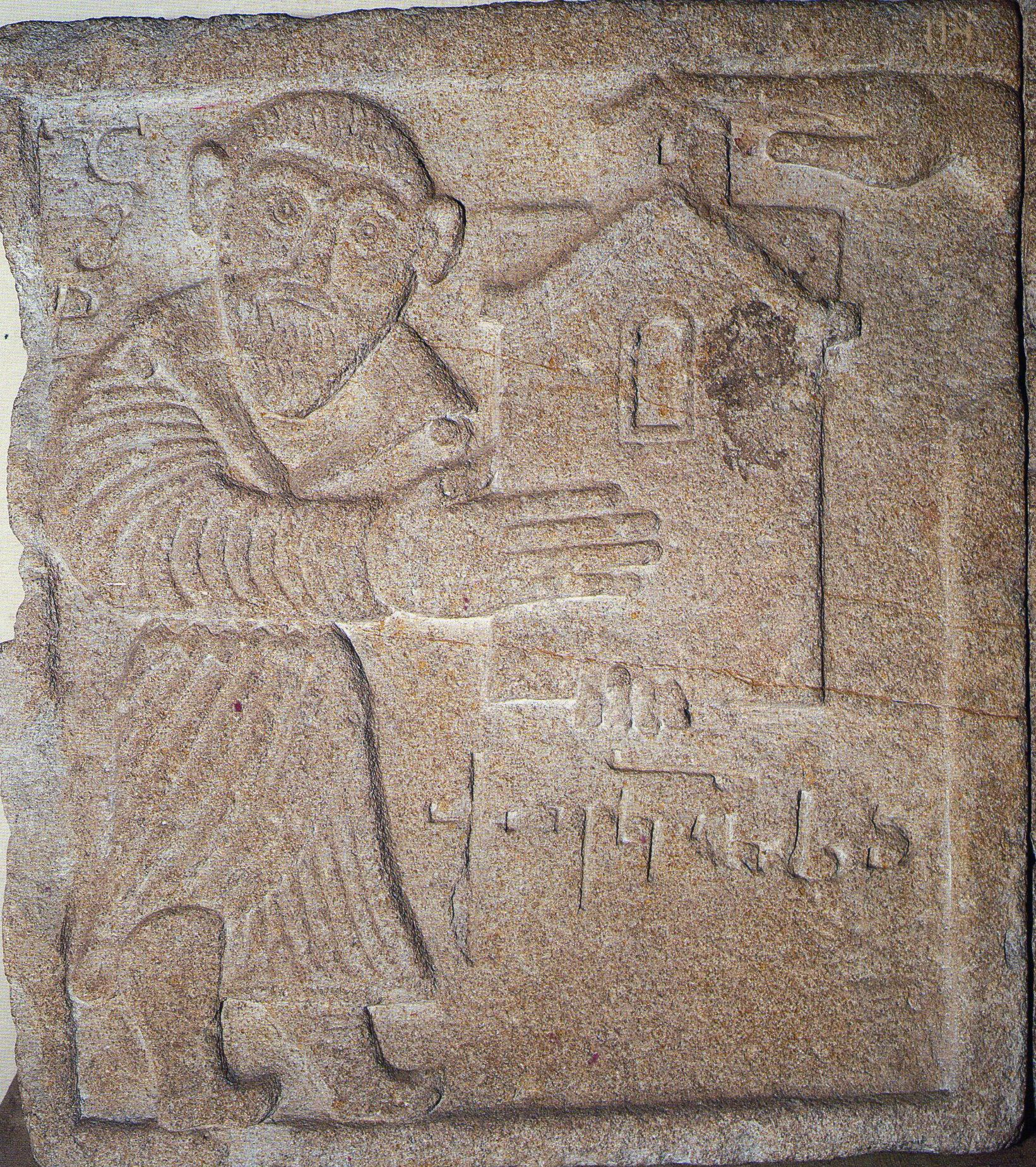 Ashot Kurapalates 9th century